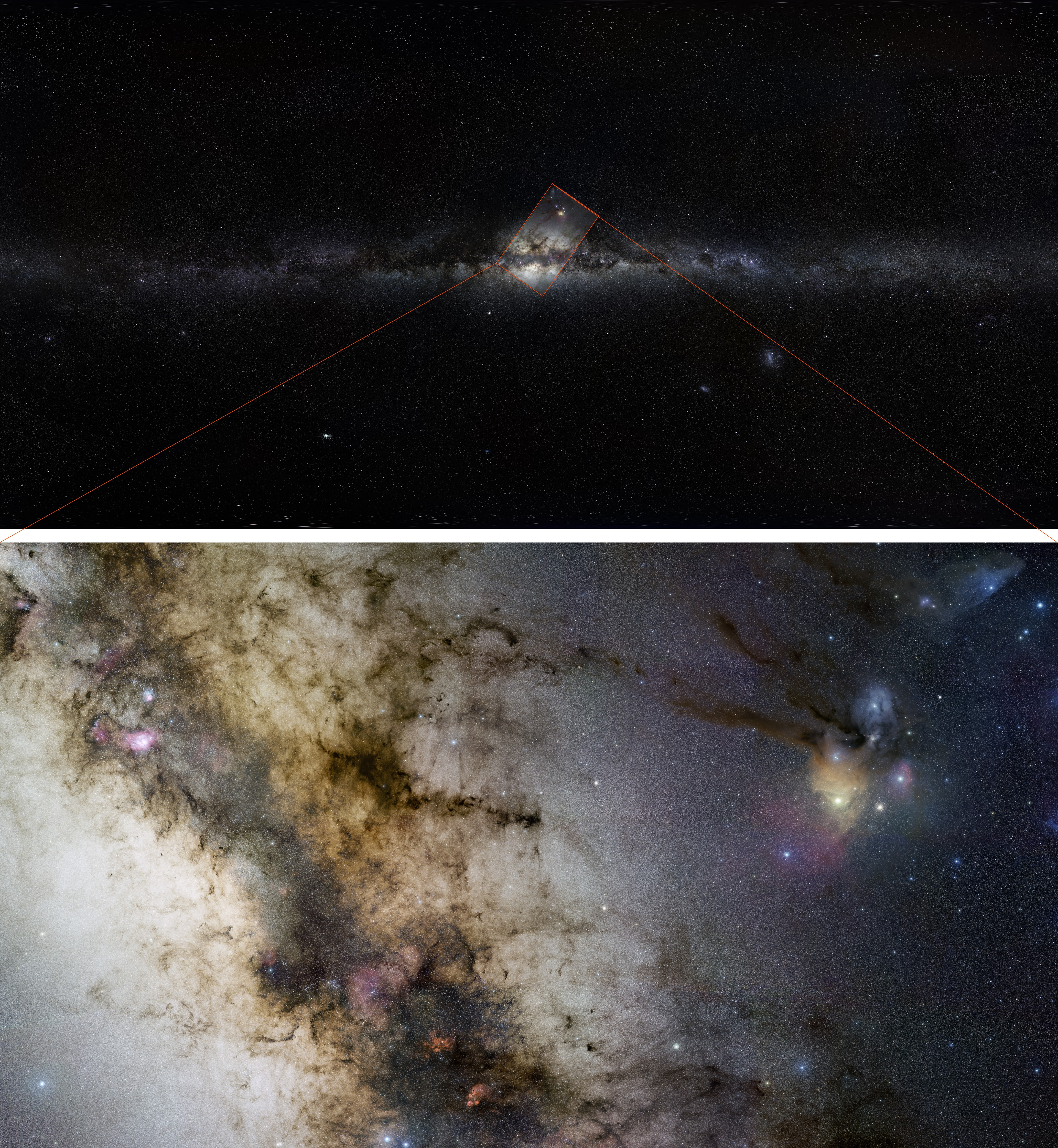 The two first images of ESO’s GigaGalaxy Zoom project combined to show the whole panorama of the Milky Way as could be seen with the unaided eye, and a more central region observed with an amateur telescope.